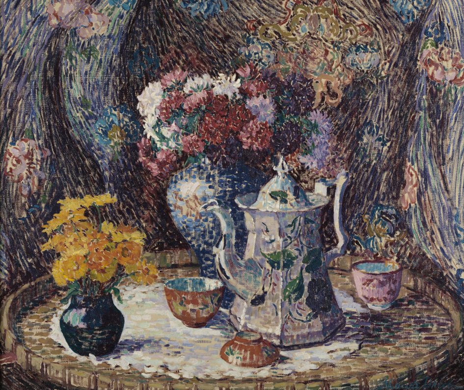 Maude Drein Bryant - Calendulas and Asters owned by the Pennsylvania Academy of the Fine Arts. This painting won the John Lambert Fund Purchase prize in 1914 and likely an image of it appeared around that time.